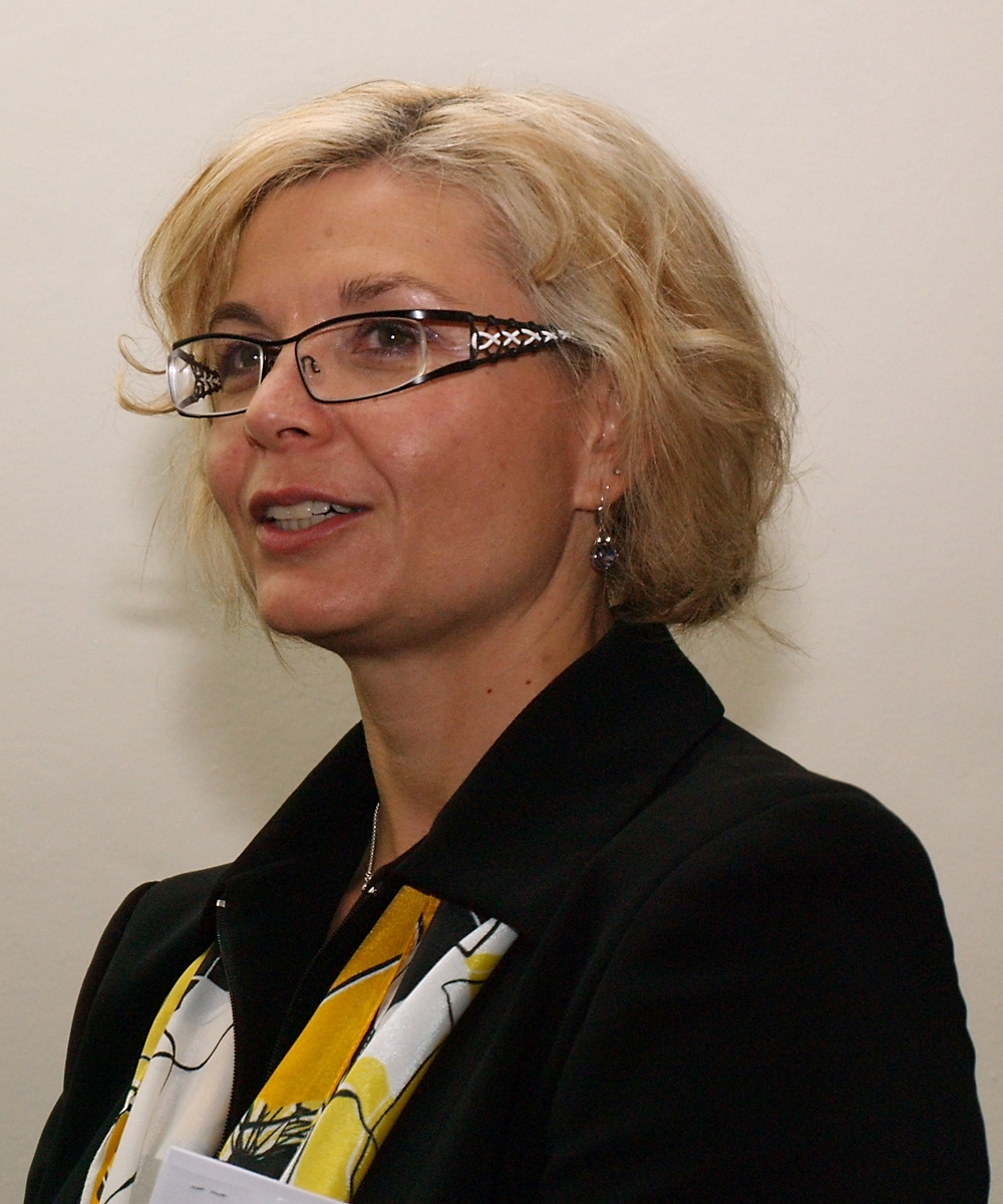 Czech Minister of Justice Daniela Kovářová